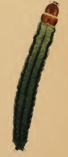 Stainton’s Natural History of the Tineina (1855–1873): Agonopterix pallorella